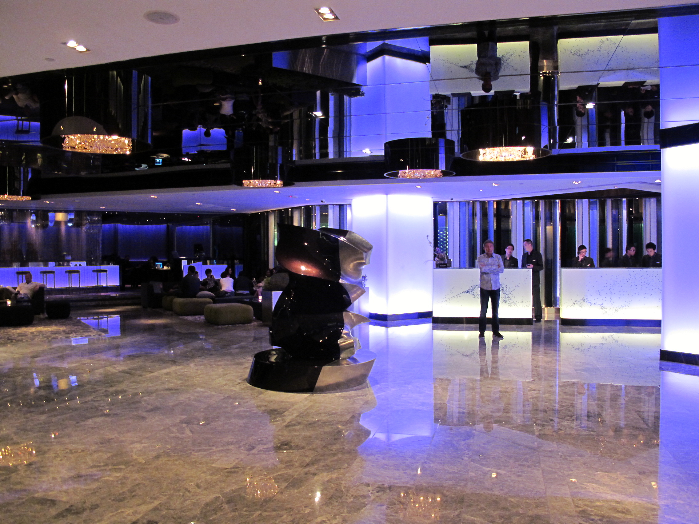 The Mira Hong Kong Hotel Lobby